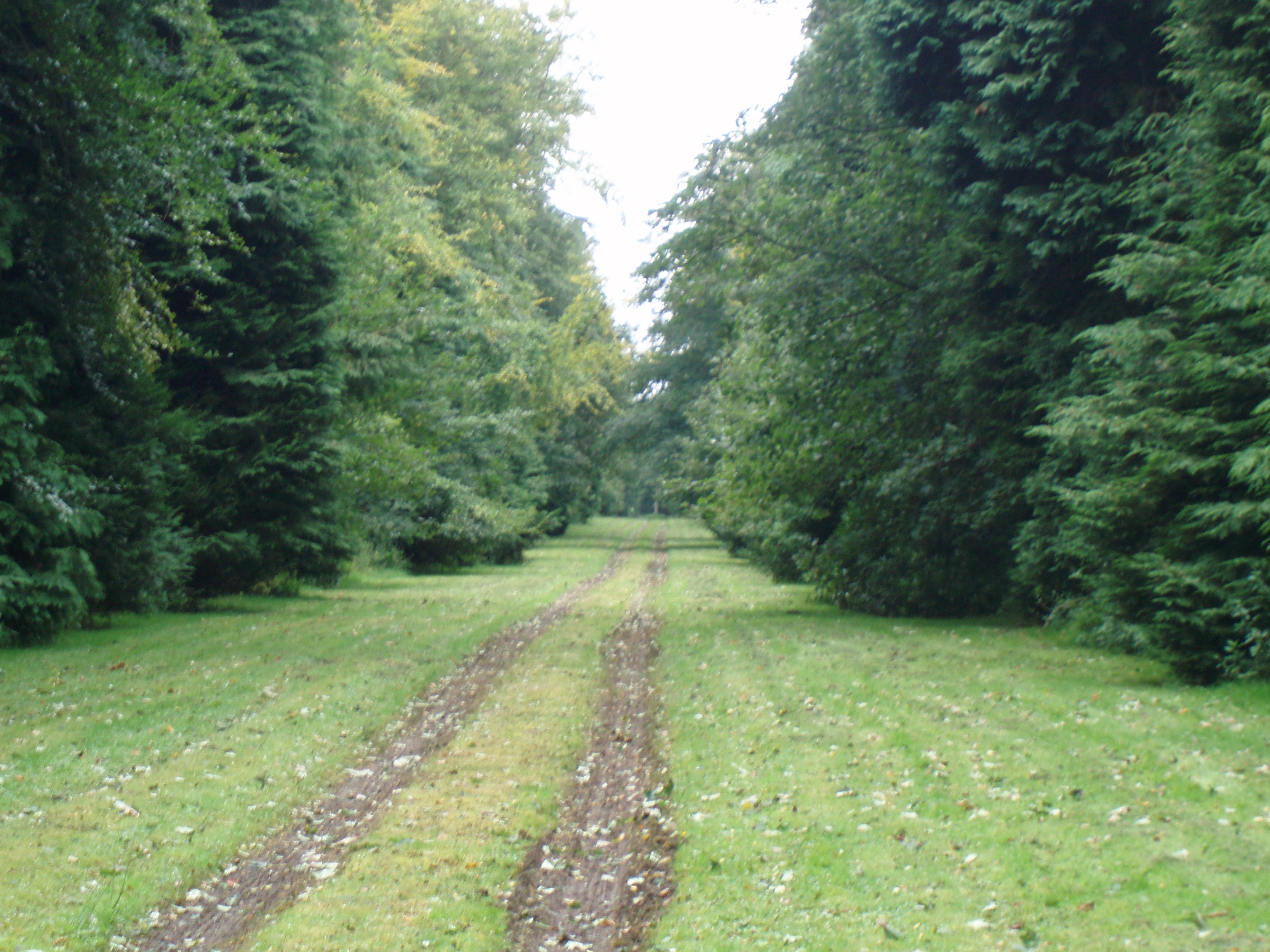 Avenue leading to Camus Cross, in the vicinity of the former village of Camuston.